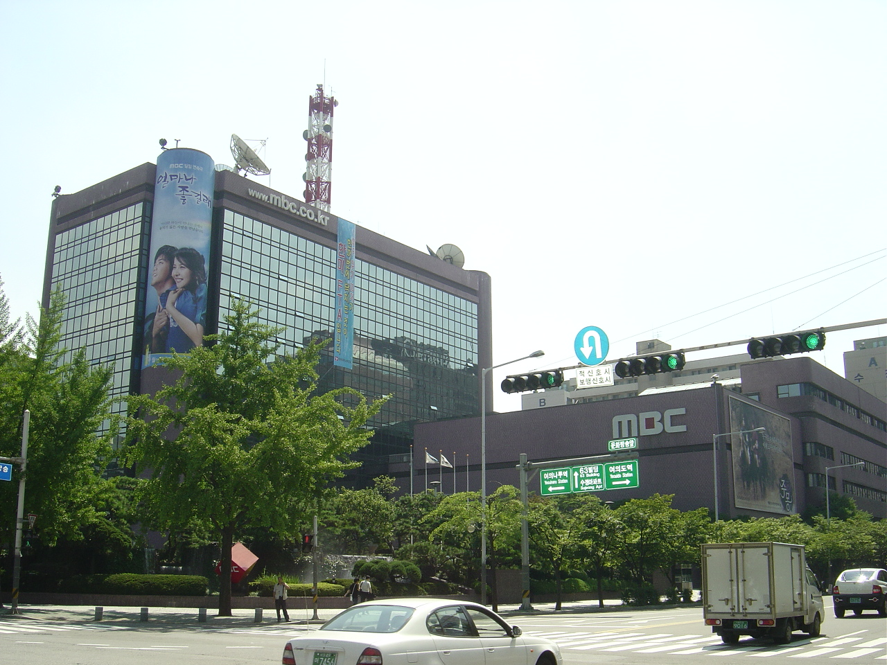 MBC headquarter building located in Yeouido, Seoul, South Korea. This picture was taken in the summer of 2006.